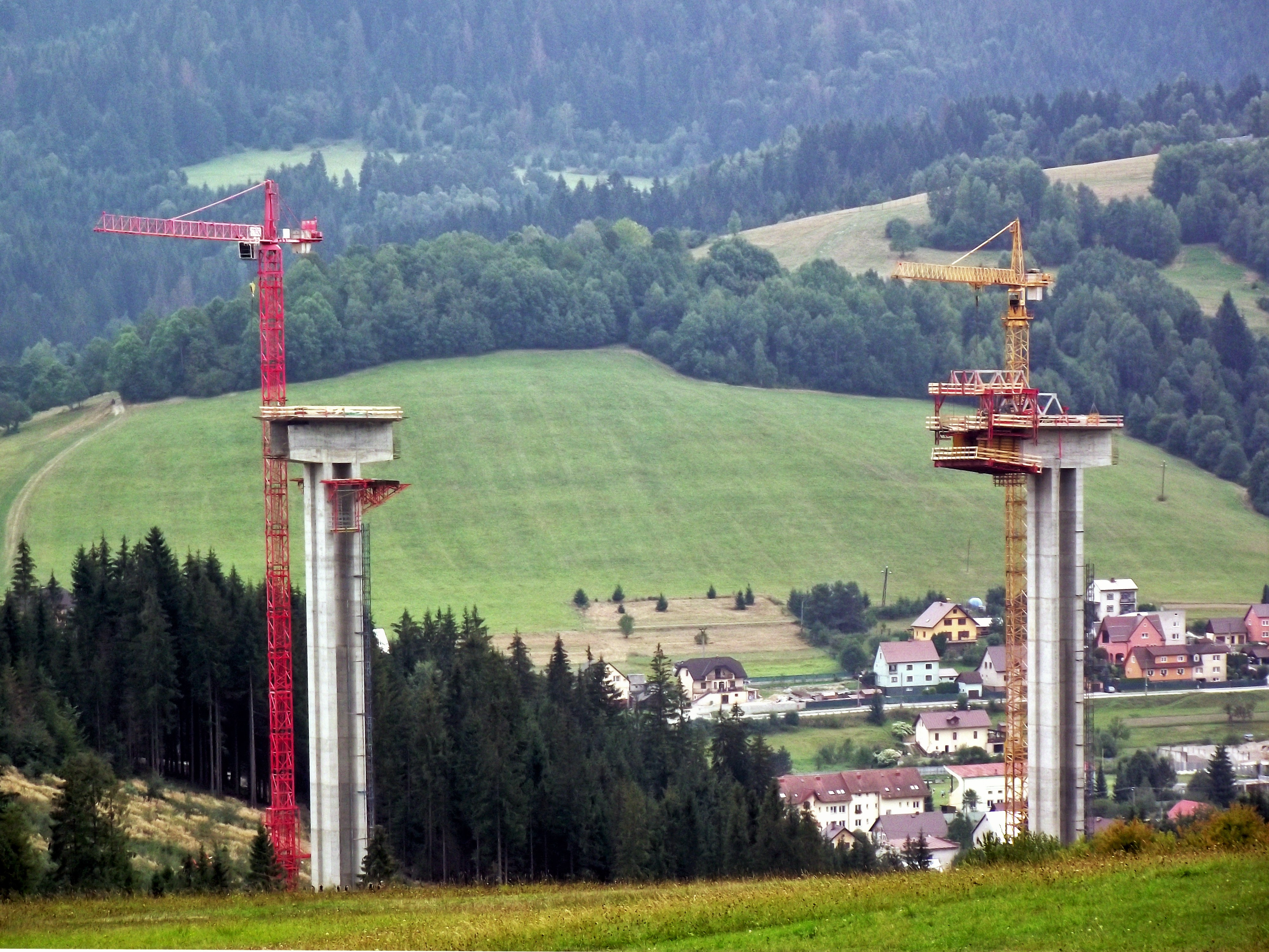 The construction site of the Slovak D3 highway in Čierne in September 2015, a view from Hrčava.